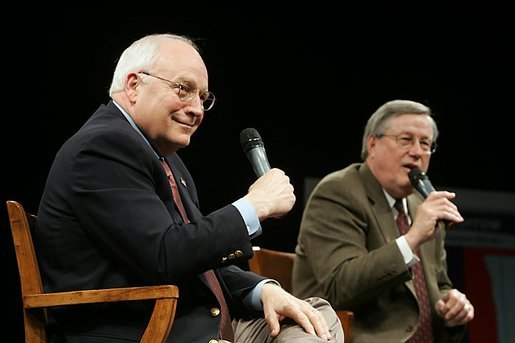 Vice President Dick Cheney and Rep. Bill Thomas, R-CA, chairman of the Ways and Means Committee, discuss Social Security reform during a town hall meeting in Bakersfield, Calif., March 21, 2005.White House photo by David Bohrer